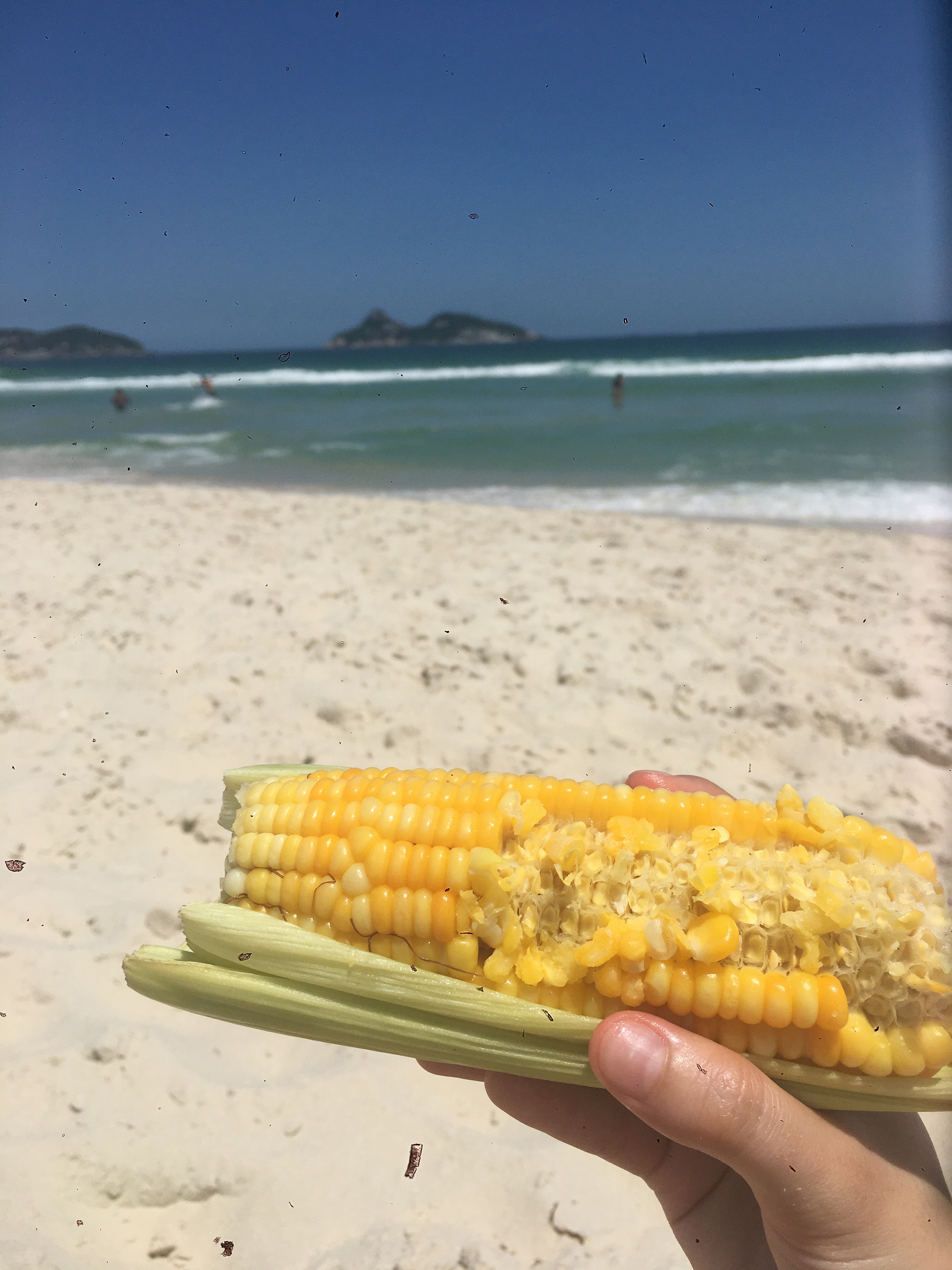 Corn on the cob is a famous beach food in Rio de Janeiro, Brazil. Street vendors sell them at the beach for usually 6 reais.